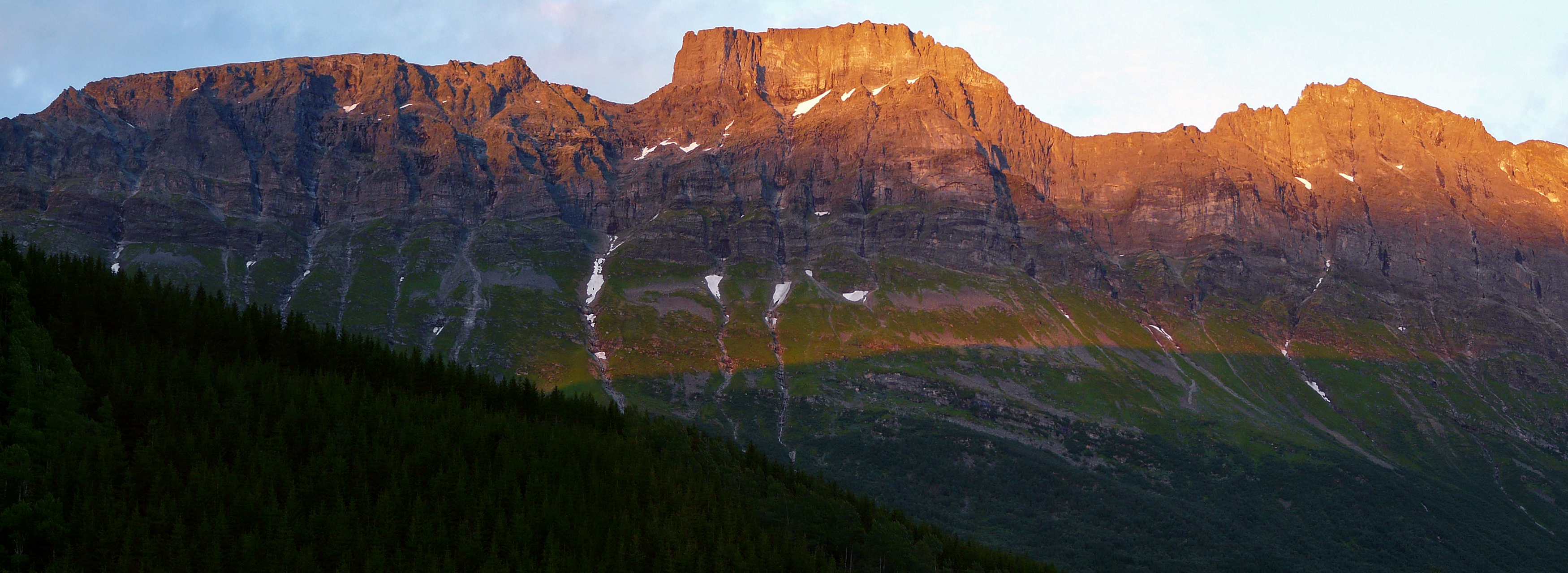 The mountain wall of Skorene (highest summit, 1,829 m, far right) as seen from the west at Solvang in evening 2008 August.